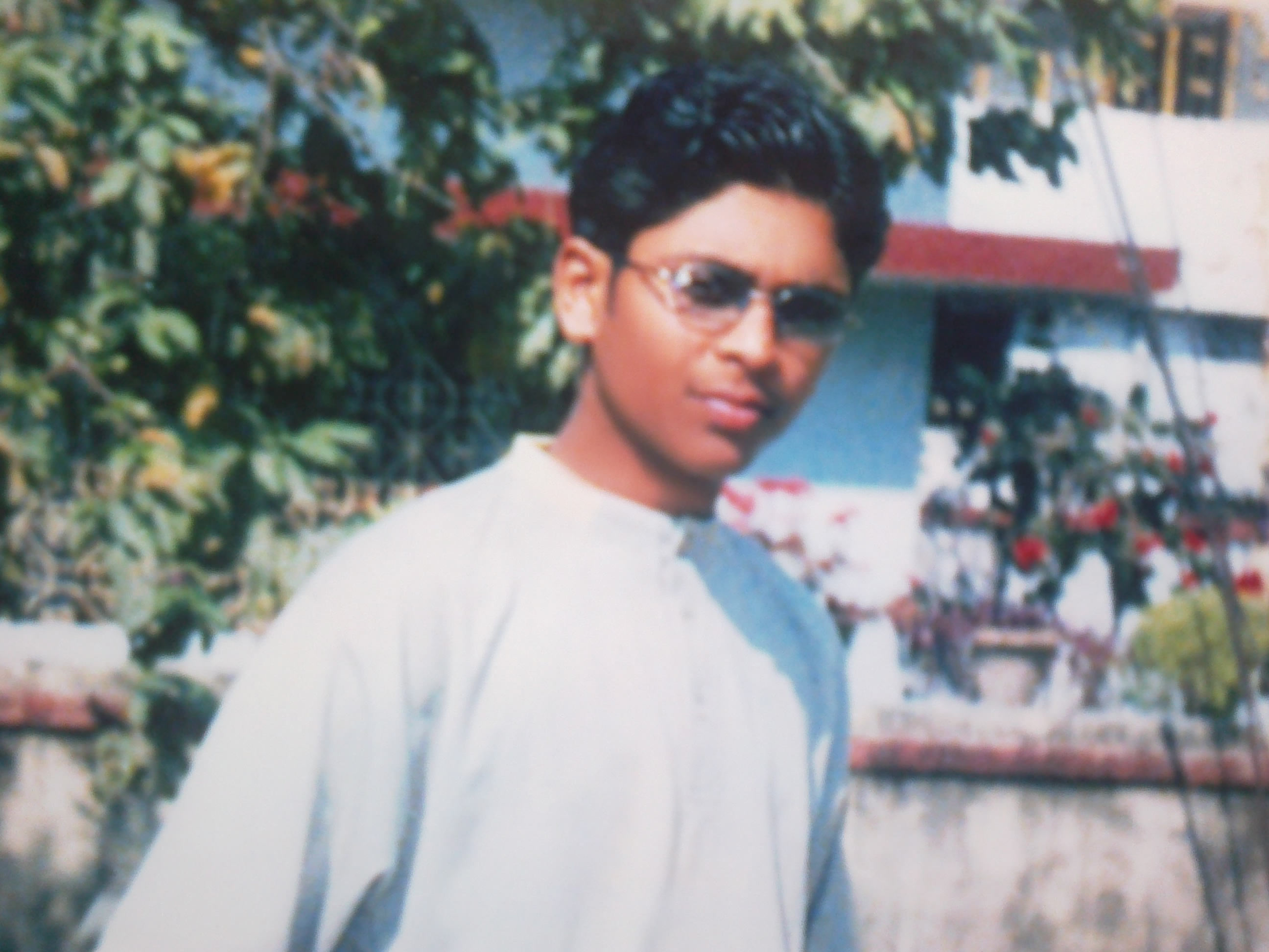 My bro